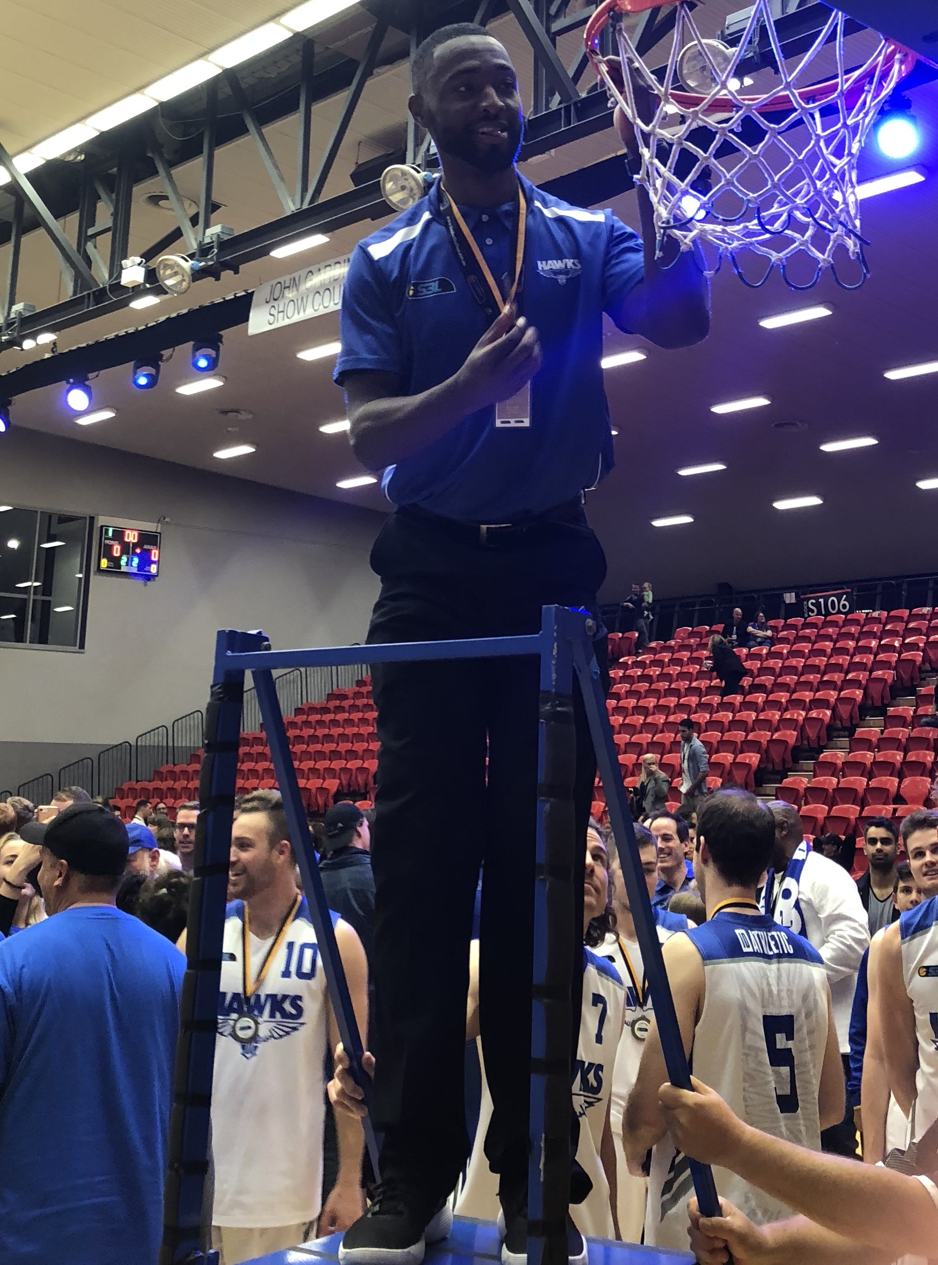 Jacob Holmen of the Perry Lakes Hawks cutting down a piece of the net at Bendat Basketball Centre after the Hawks won the championship